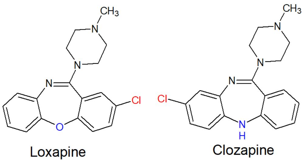 Chemical structures of two structurally similar antipsychotics, loxapine and clozapine, with key differences highlighted. The placement of the chloride atoms are highlighted in red, while blue highlights loxapine's oxygen atom (as a dibenzoxazepine) and clozapine's secondary amine (as a dibenzodiazepine).